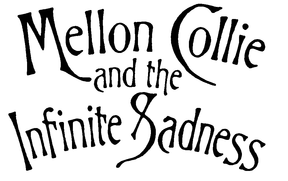 The Smashing Pumpkins Mellon Collie and the Infinite Sadness Logo